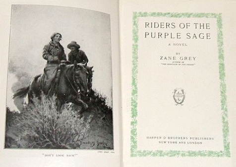 Title page and frontispiece, Riders of the Purple Sage, Zane Grey, Harper and Brothers, 1912.